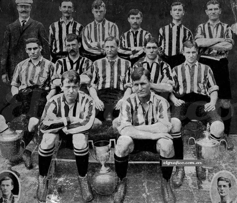 Argentine football team Alumni posing with the trophies won that year: Copa de Honor Cusenier, Copa Campeonato and Tie Cup. Players are: (up): Guillermo A. Jordan, referee; Carlos Buchanan, Juan D. Brown, José Buruca Laforia, Carlos G. Weiss, P.B. Browne; (center): Carlos Lett, Arturo Mack, Jorge Brown, Mariano Reyna, Eliseo Brown. (down): Alfredo Brown, Ernesto Brown. (players in a circle): Carlos C. Brown, Arnaldo Watson Hutton.